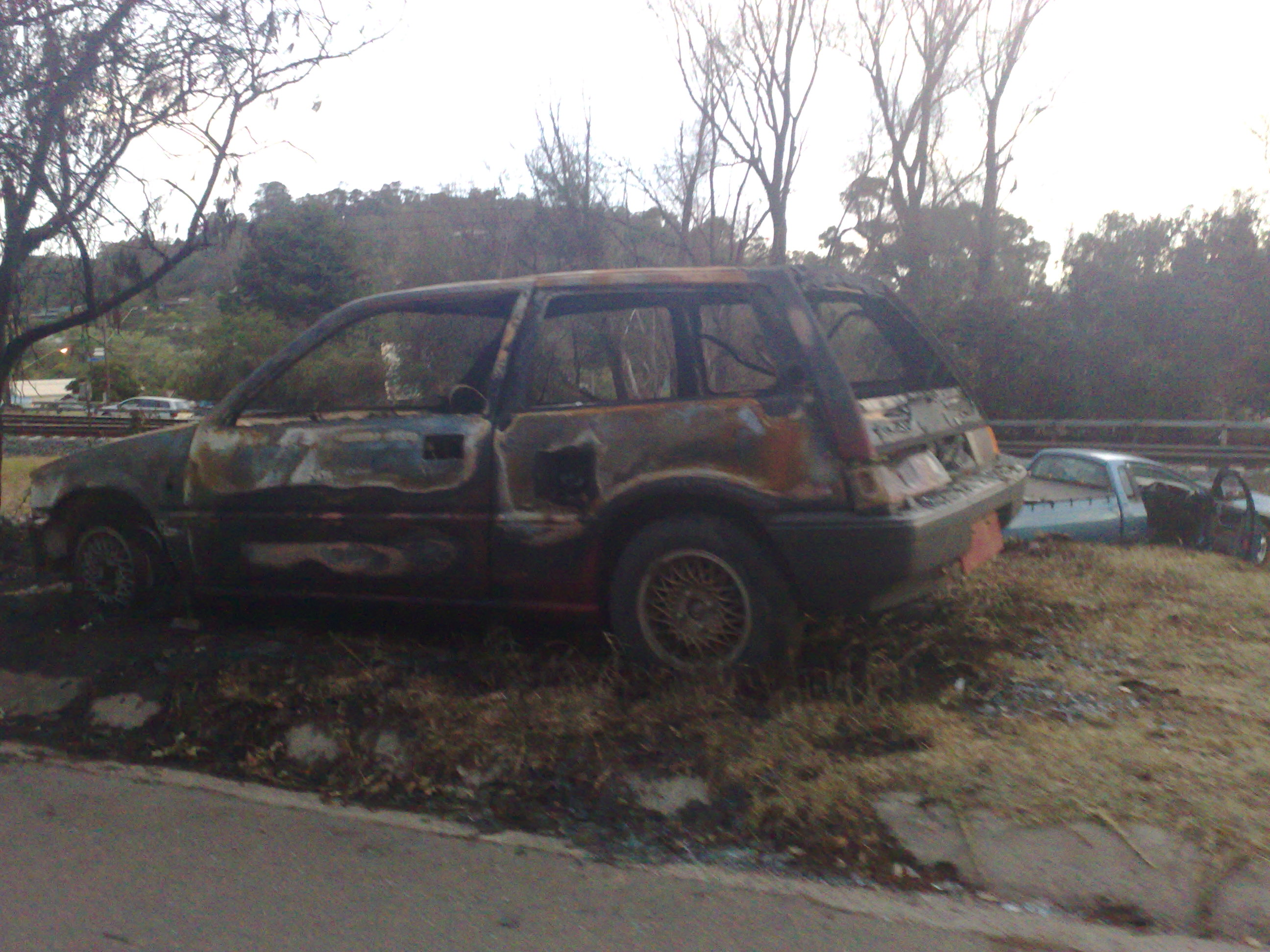 Photo of a car burnt as a result of the Upper Ferntree Gully Fires 2009, local resident by the name of Archie, located on Quarry Road, Upper Ferntree Gully